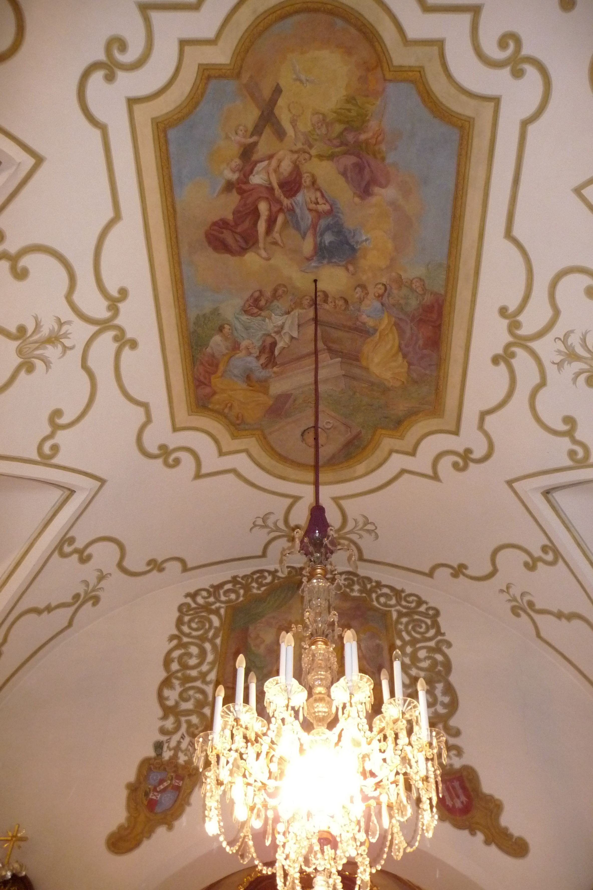 Roof of church Maria Trost